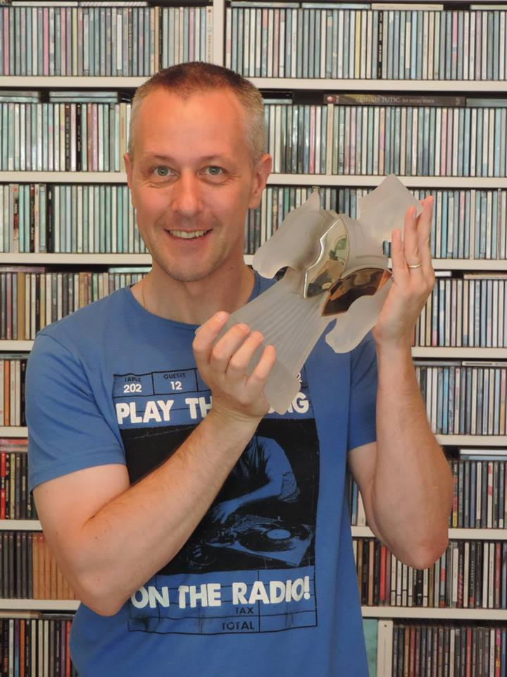 Zlatko Turkalj with award